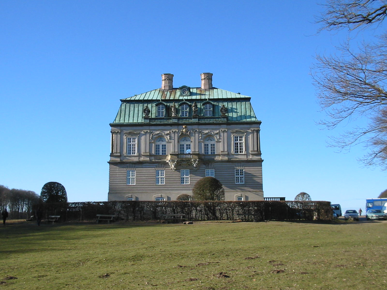 View from the east of Eremitage castle, Jægersborg Deer Park, Denmark.